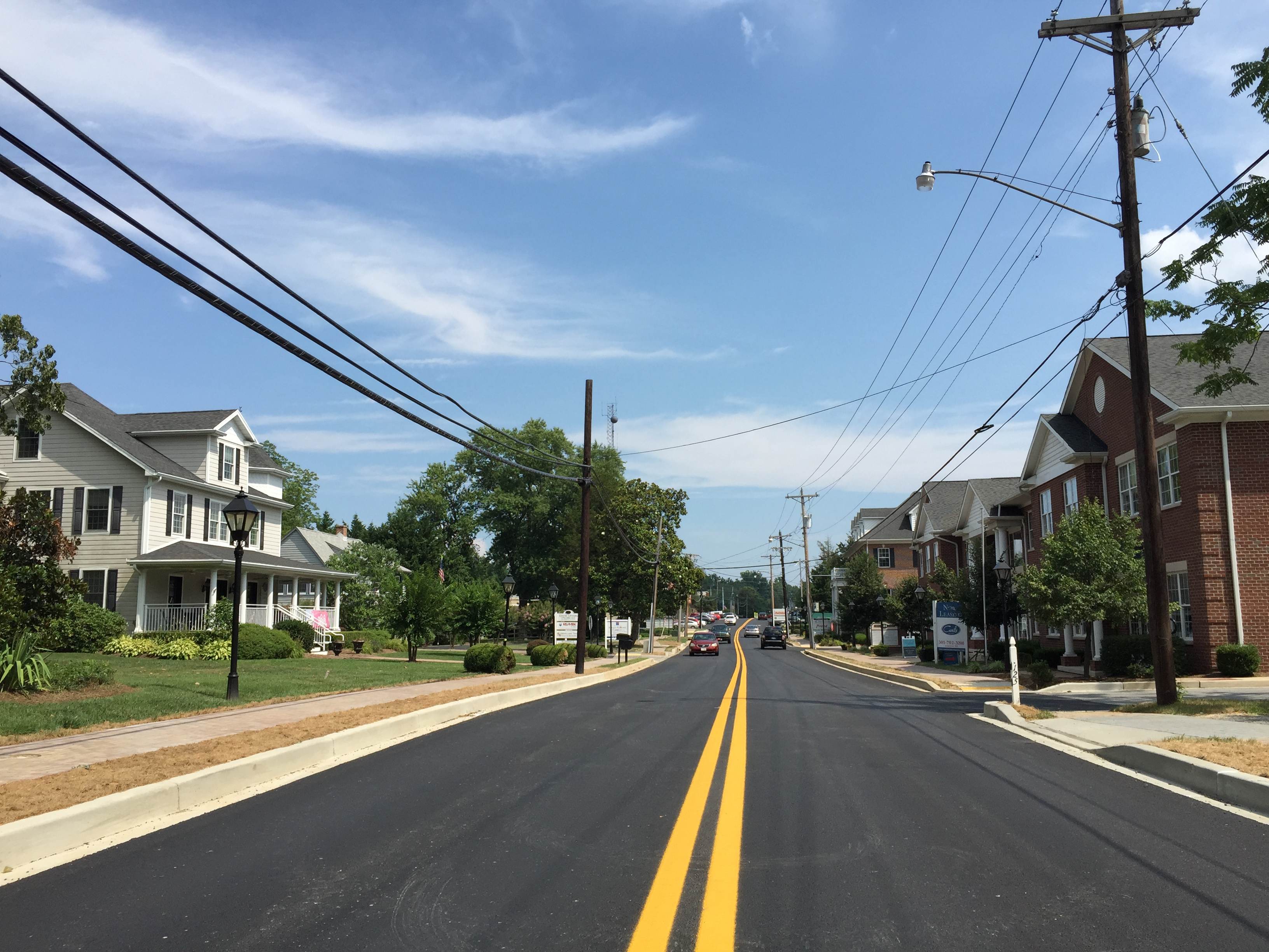 View south along Maryland State Route 765 (Main Street) just south of Church Street in Prince Frederick, Calvert County, Maryland